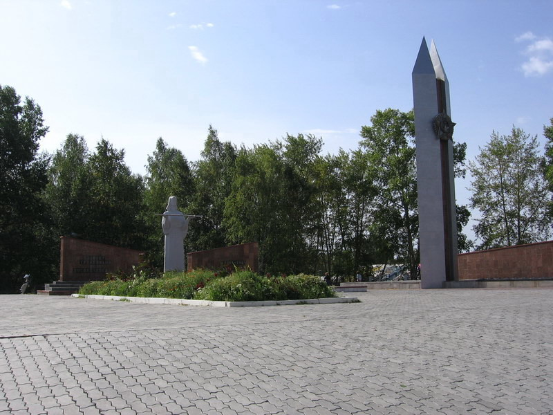 Participants WWII Memorial and Eternal Flame in the Forest.